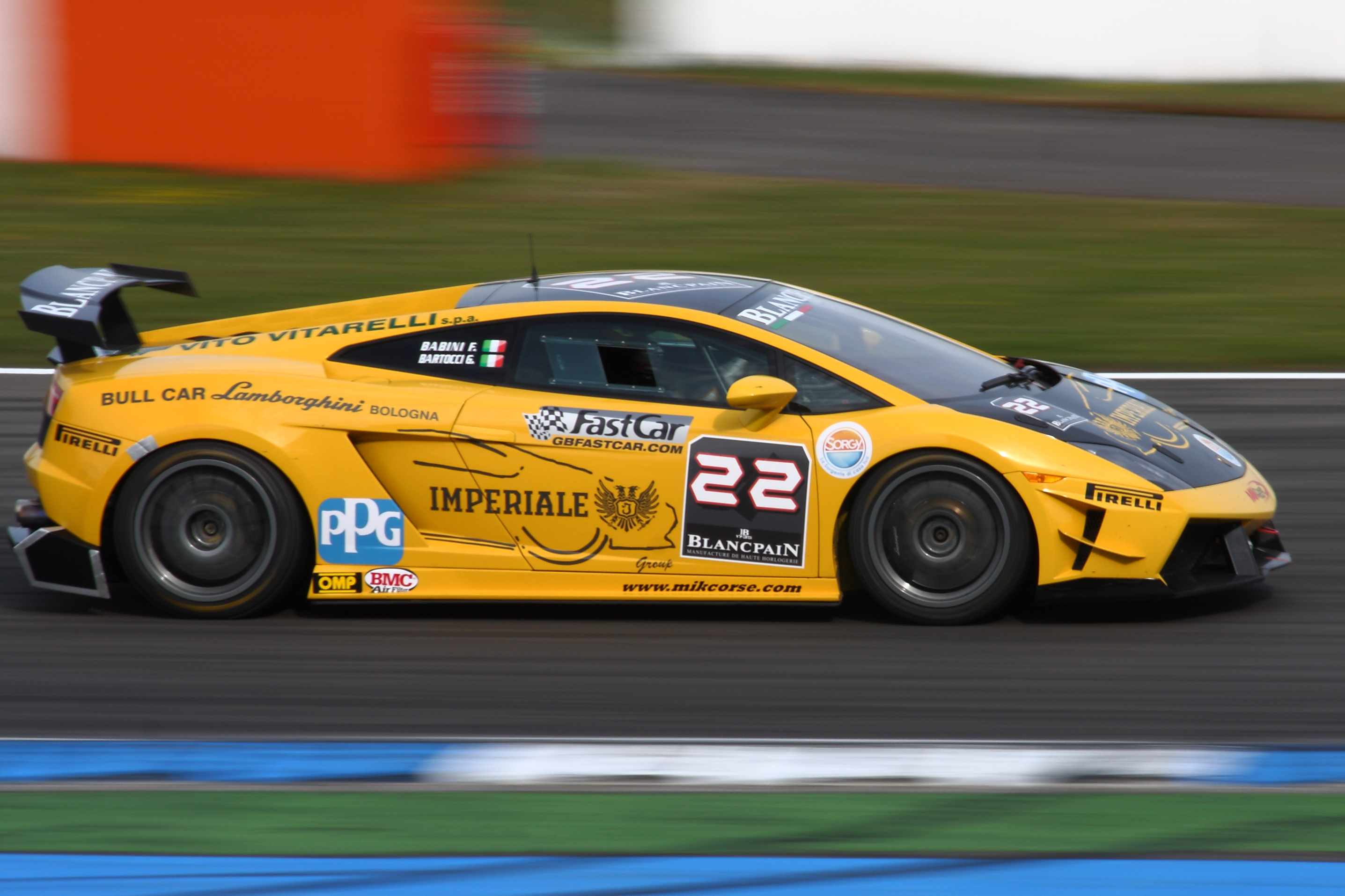 Lamborghini Super Trofeo (Drivers: Babini F. / Bartocci G.)